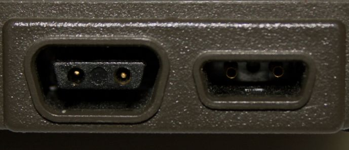 Picture of HP-IL loop-in and loop-out connectors on an HP-71B with HP-IL module. My own photo.